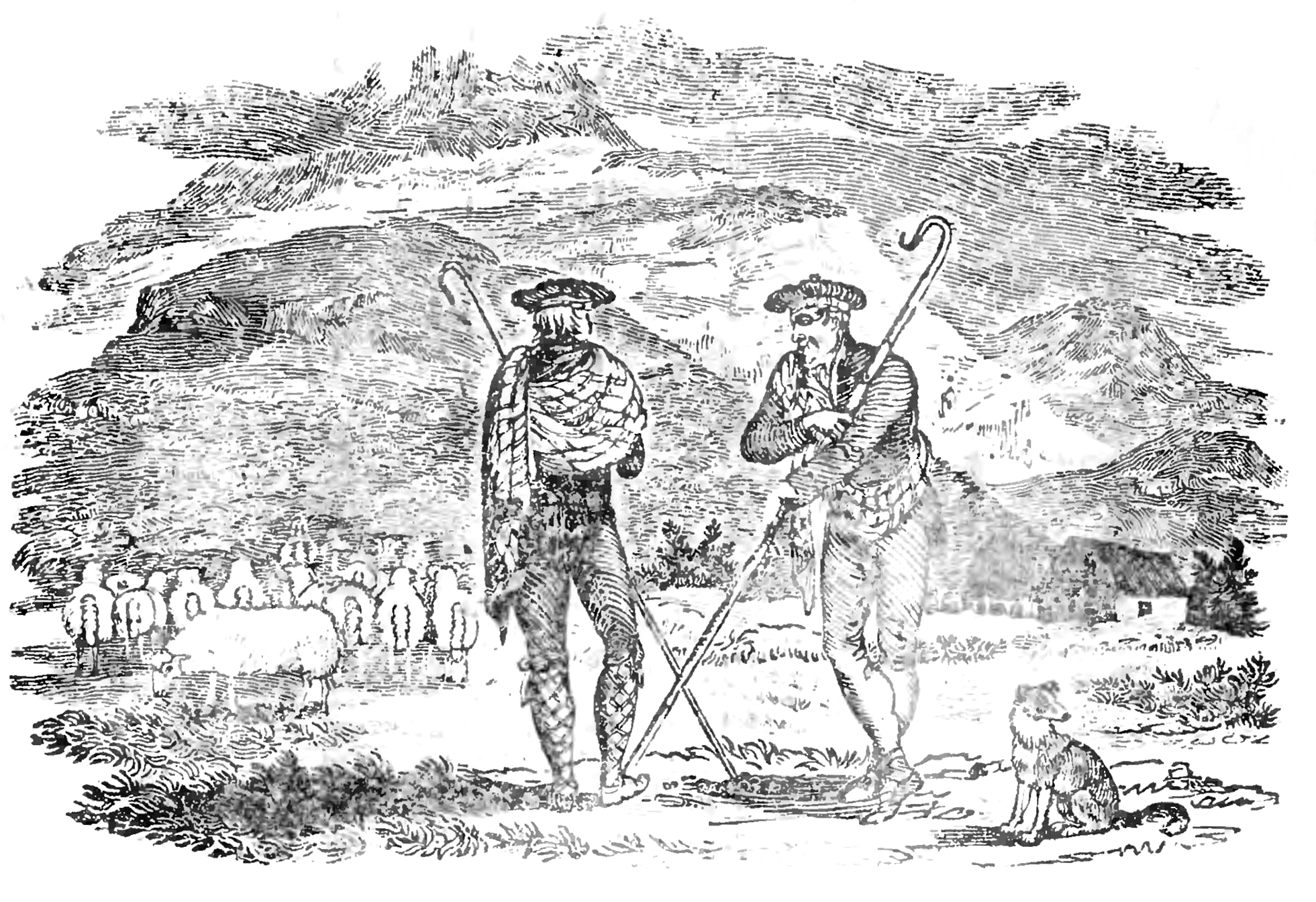 Image from Day, a Pastoral